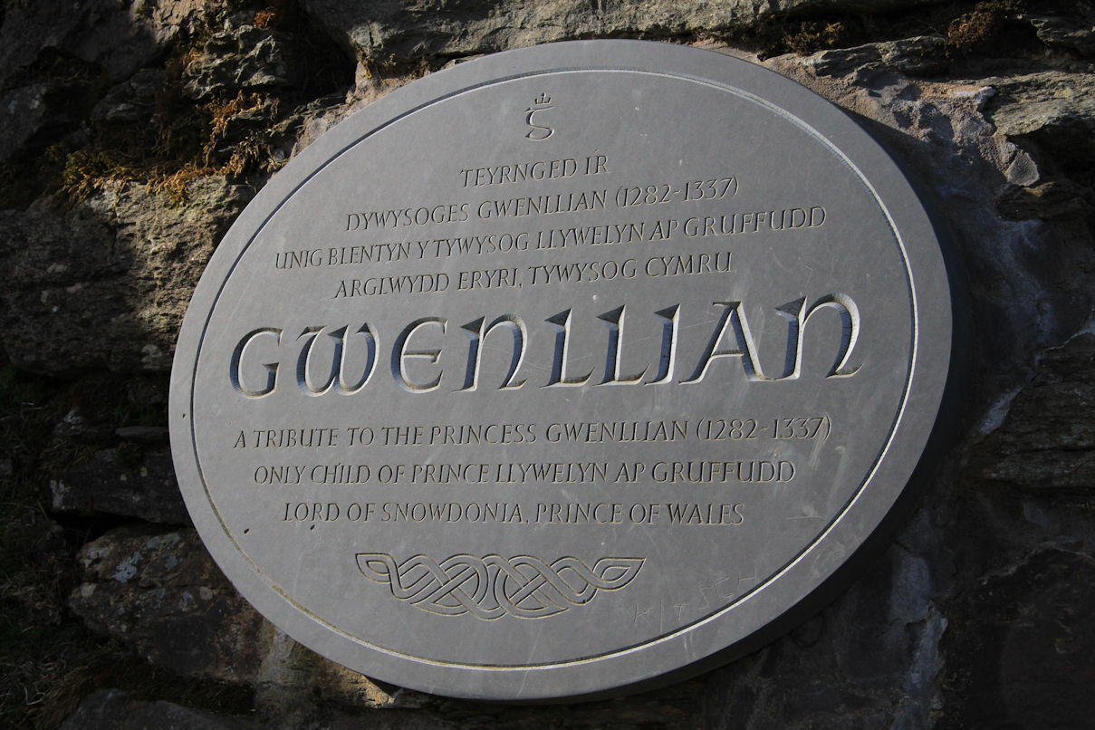 Plaque commemorating Princess Gwenllian, 1282 - 1337, on Snowdon summit.